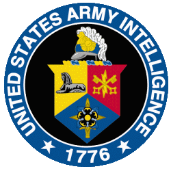 Office of the Deputy Chief of Staff for Intelligence, United States Army Intelligence, G-2 Seal